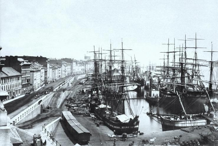 Photograph, Montreal harbour from Custom House, QC, about 1872, Alexander Henderson, Silver salts on paper mounted on card - Albumen process - 16 x 21 cm